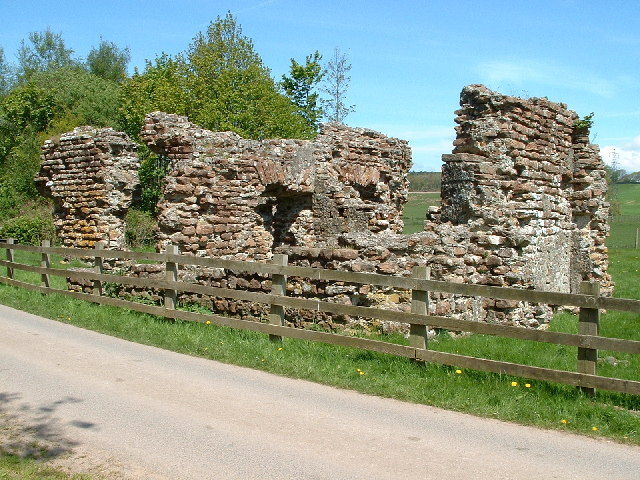 Roman Bath House near Ravenglass. These walls are reputed to be the highest roman walls still standing in the UK. The Romans had a fort here from AD130 until sometime in the 3rd Century.